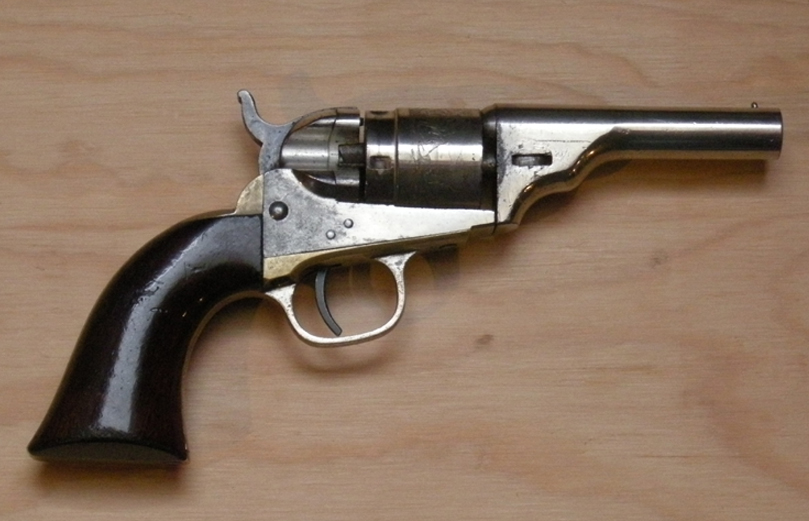 1862 Colt Pocket Navy Conversion